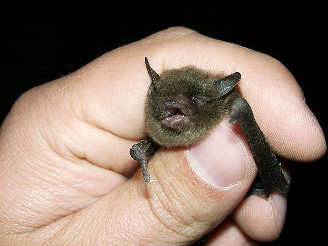 Indiana Bat (Myotis sodalis) being held in a hand.